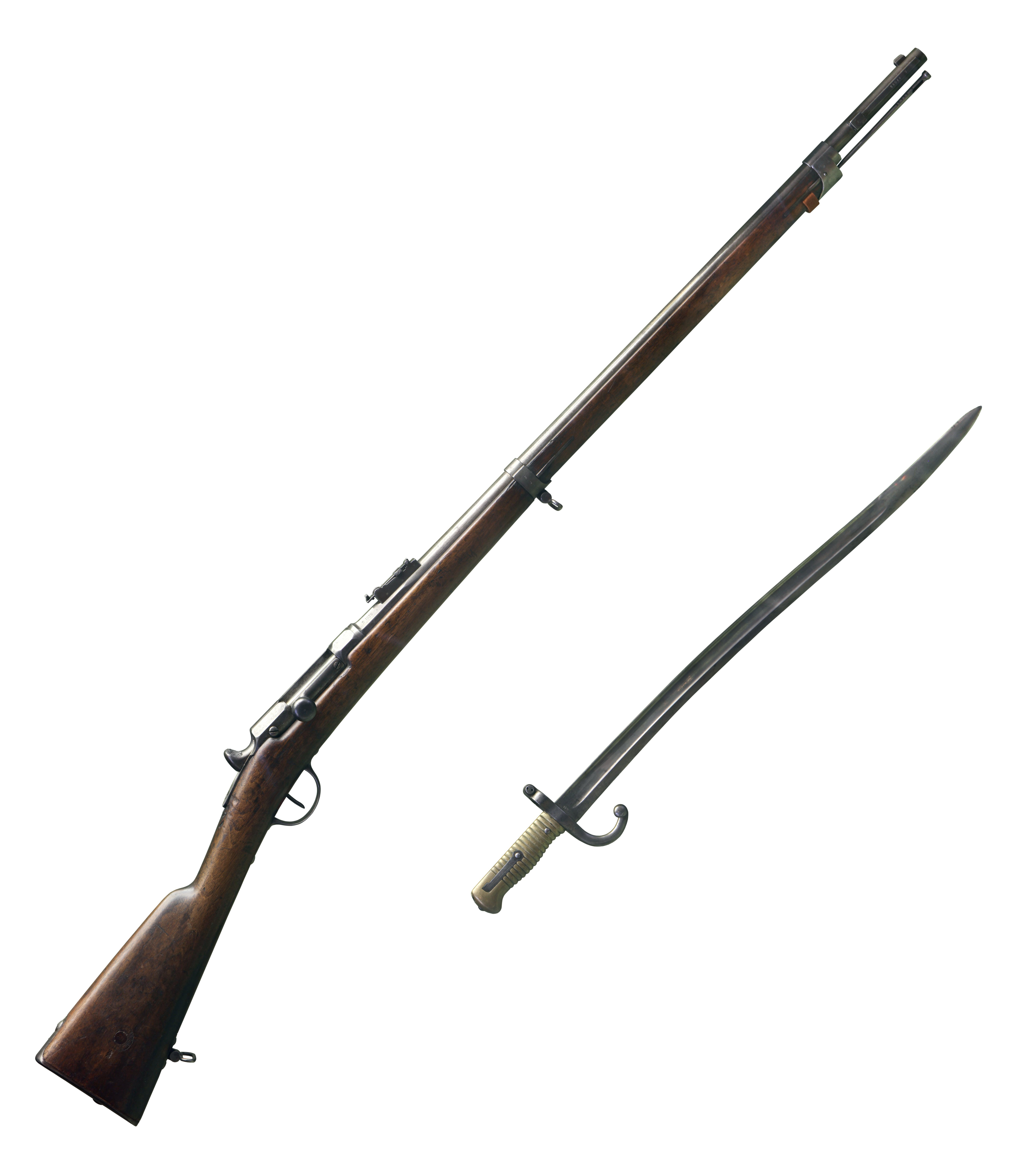 Chassepot